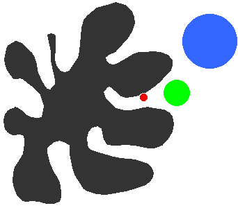 A schematic of what a pore and sample analytes for SEC or GPC separations would look like